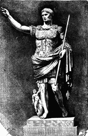 Statue of Augustus at the Vatican